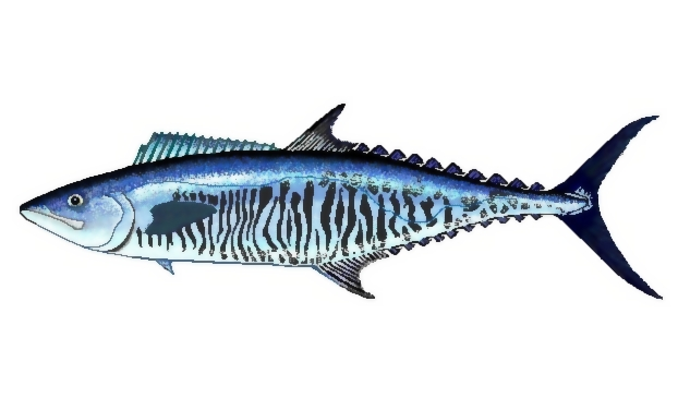 Scomberomorus commerson